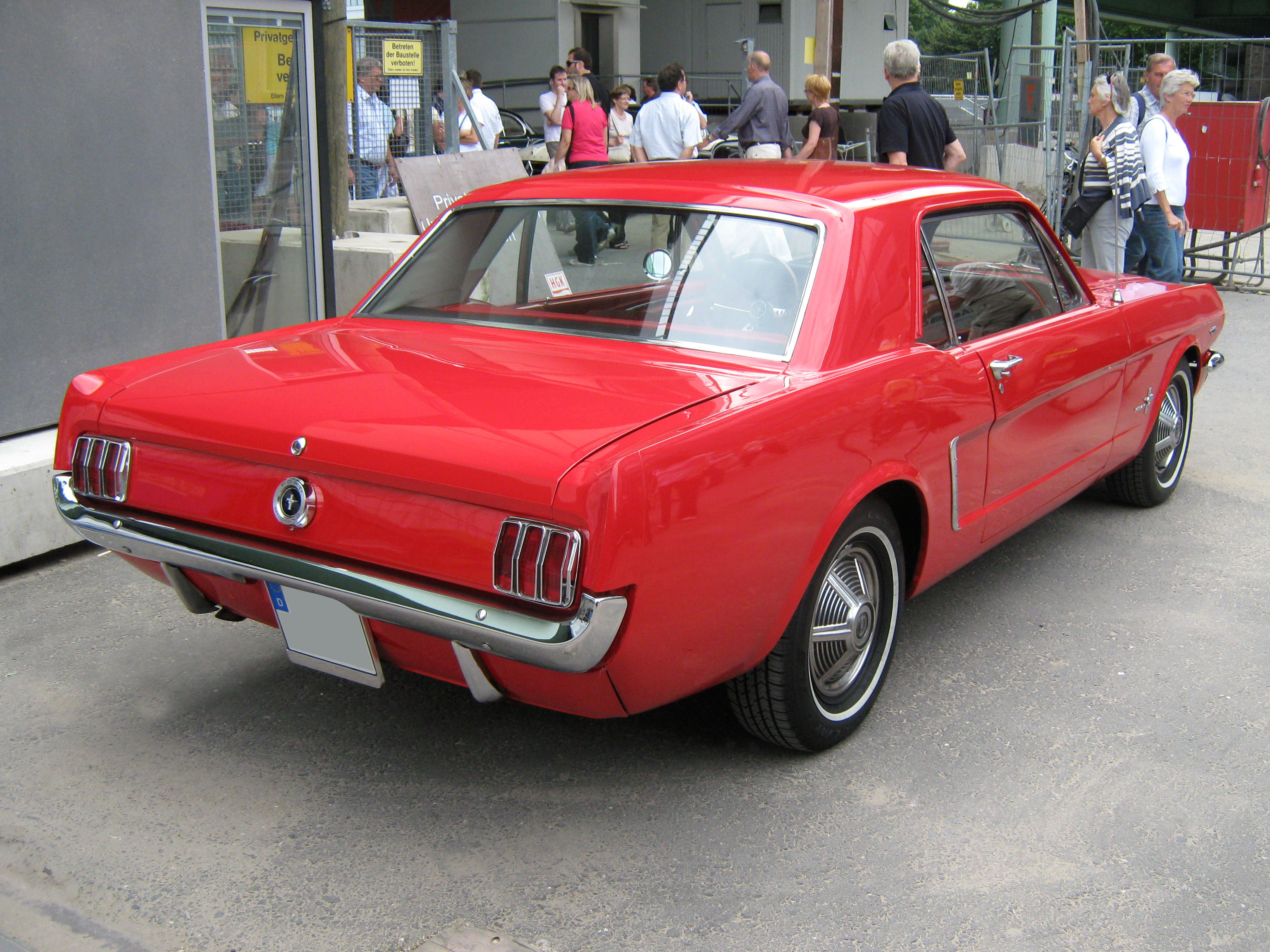 1965 Ford Mustang 2D Hardtop rearview